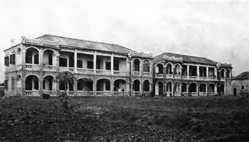 John G. Kerr Refuge for the Insane, Canton, which is the first mental hospital in China.